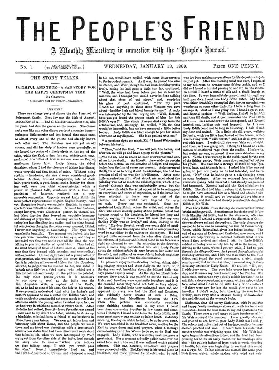 Front page of the People's Friend magazine first edition